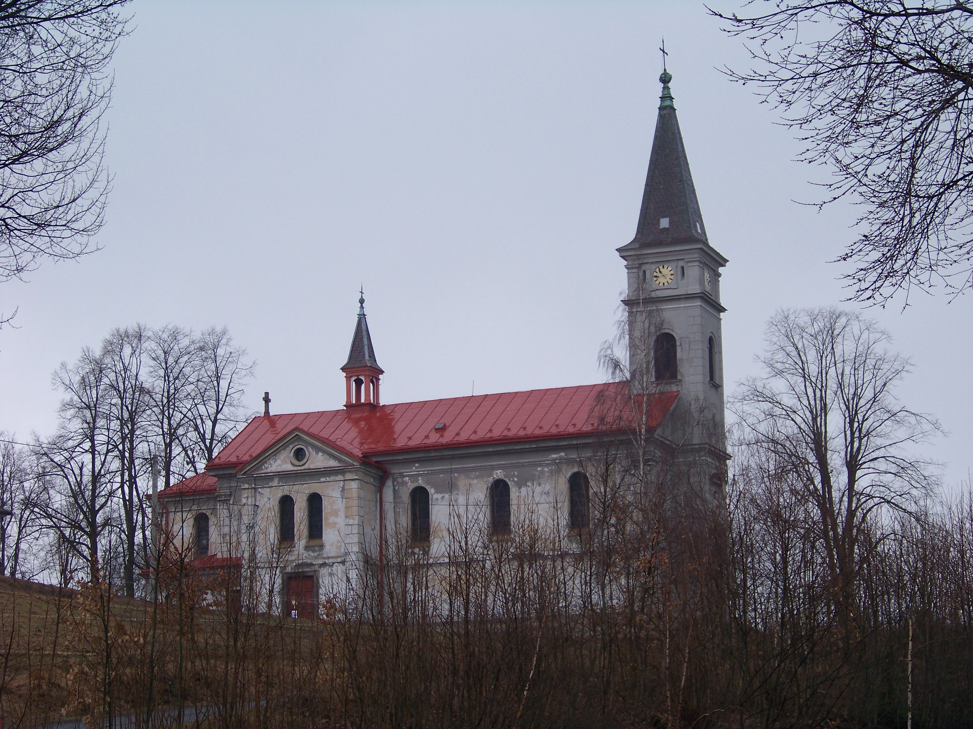 Lučany nad Nisou, Jablonec nad Nisou District, Liberec Region, the Czech Republic. The church.